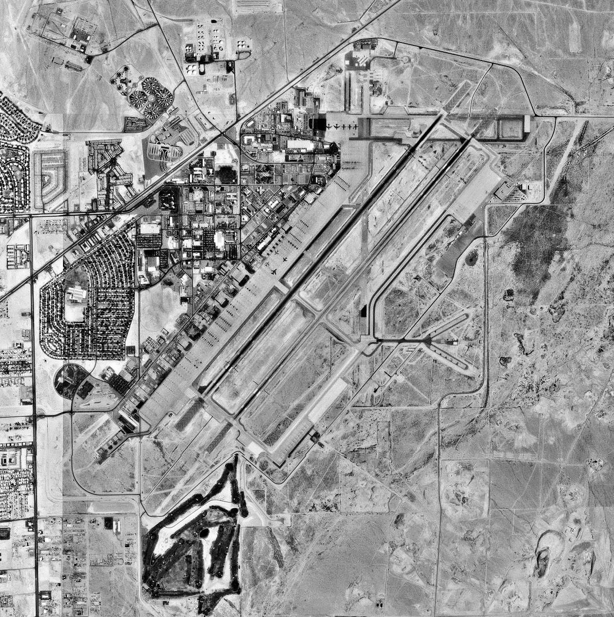 USGS orthophoto of Nellis Air Force Base in Las Vegas, Nevada, United States.